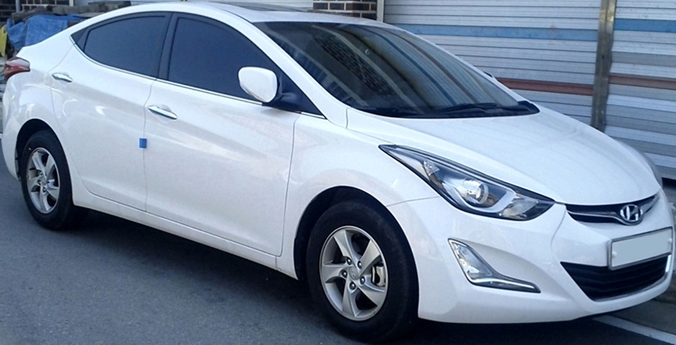 Hyundai The New Avante